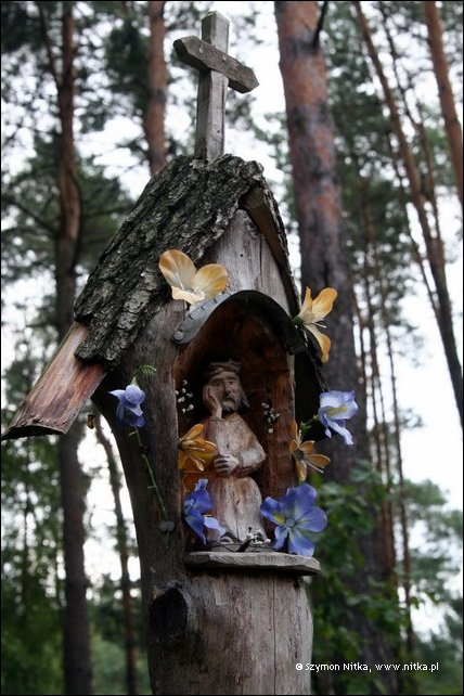 Kadzidlo, Kurpie, Poland